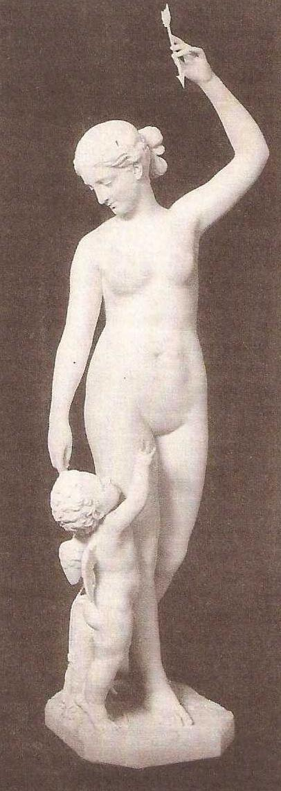 Sculpture "Woman Triumphant", by artist Joel Tanner Hart (1810-1877). Alternative titles: "The Triumph of Chastity", "Woman's Victory", "Beauty's Triumph", "Woman's Triumph", and "The Triumph of Womanhood". The sculpture was destroyed in a fire in the Fayette County Kentucky Courthouse in 1897.